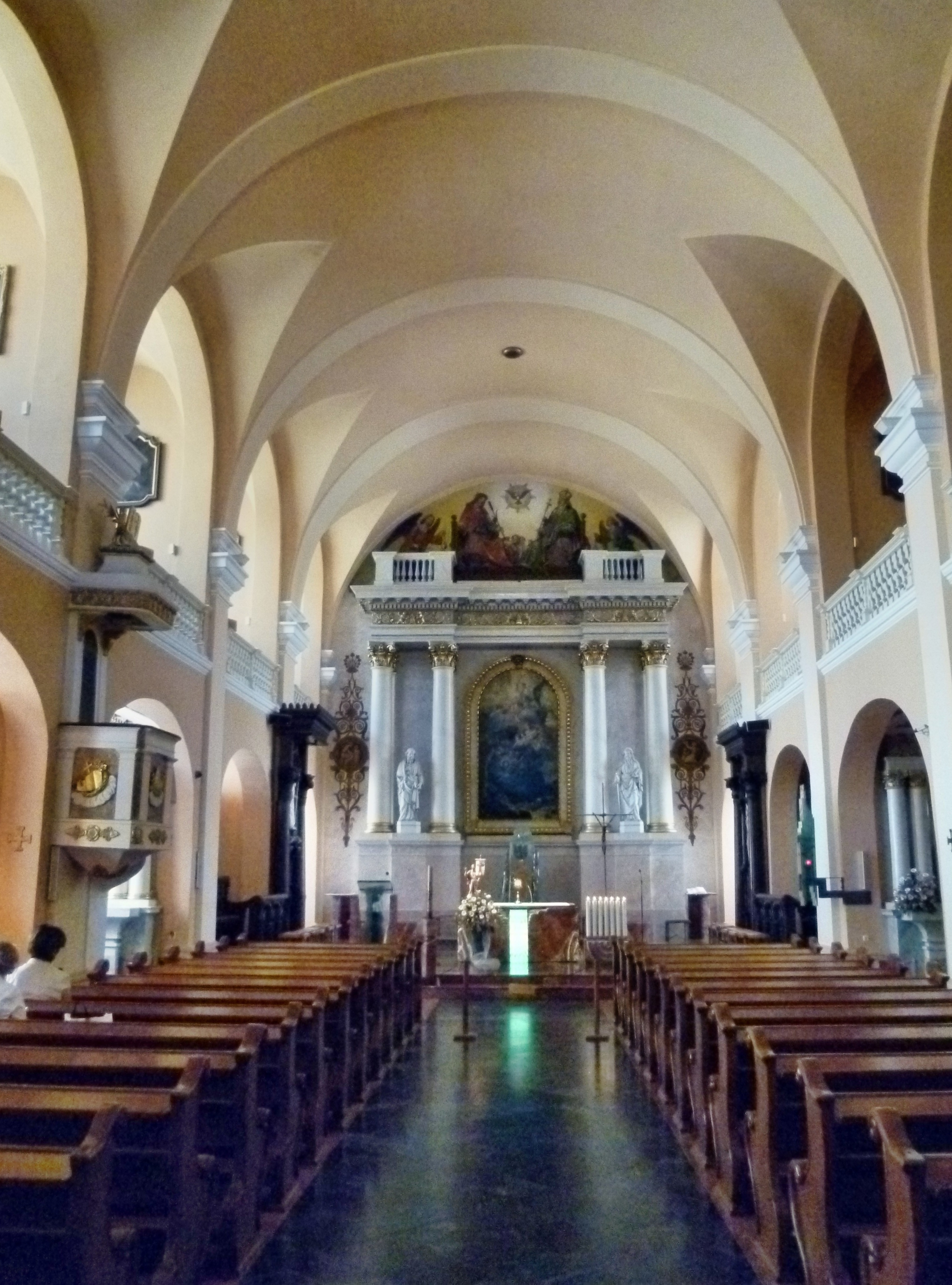 Central nave of the St. Francis Xavier Cathedral in Banská Bystrica (Slovakia).